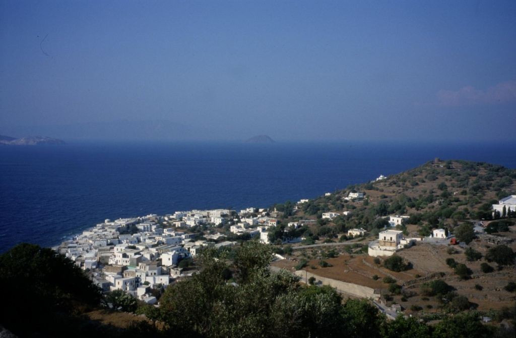 Vista from the fort to Mandraki on the Greek island of Nisyros